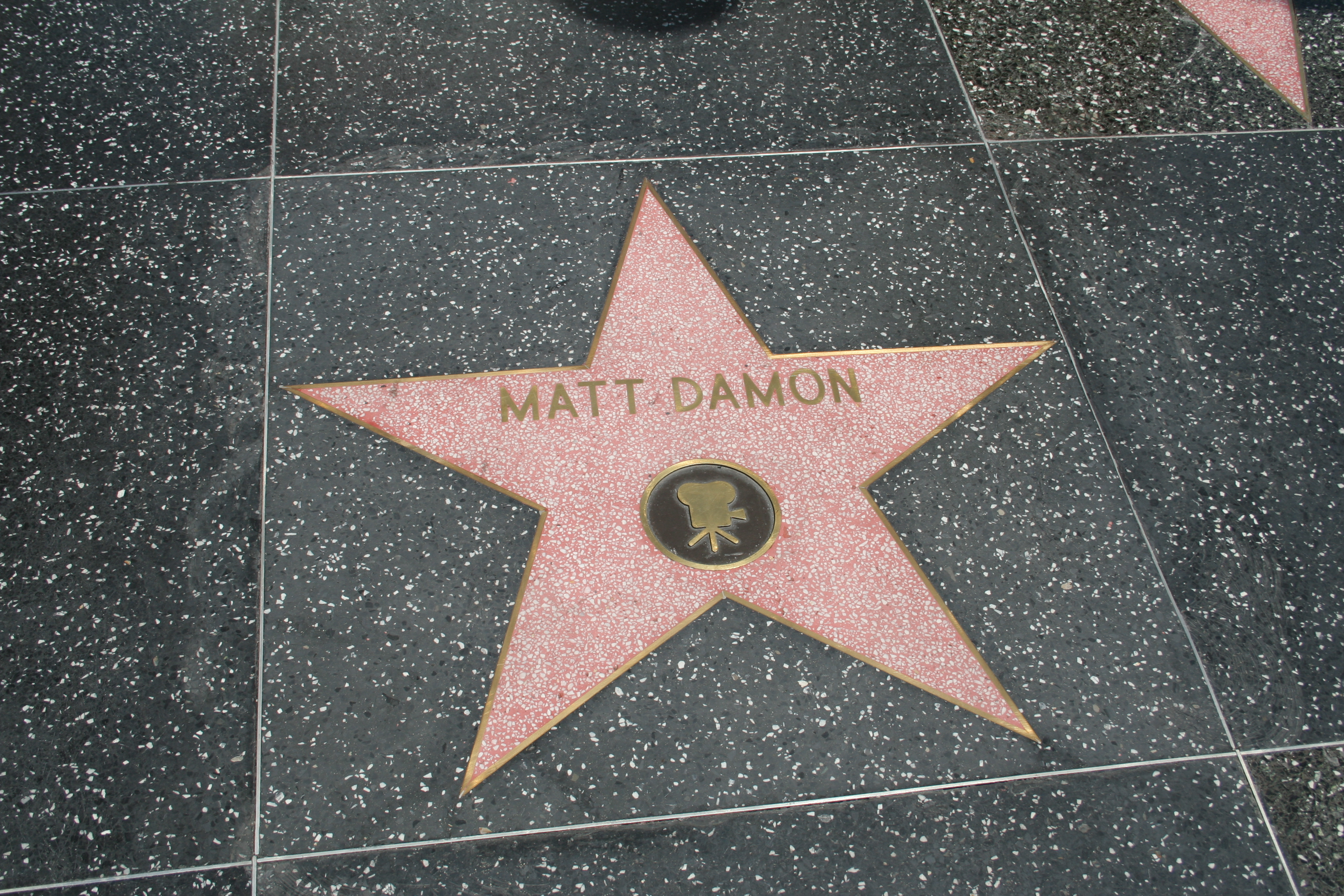 Matt Damon's Hollywood Star